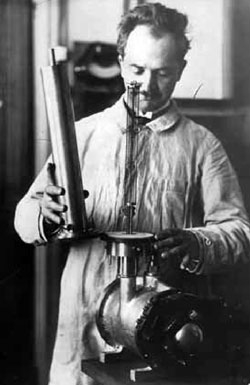 Fernand Holweck picture